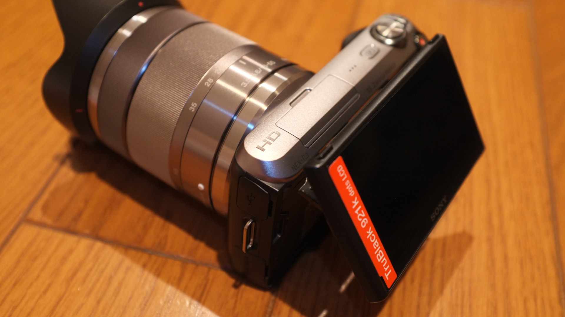 Sony Alpha NEX-C3 digital camera